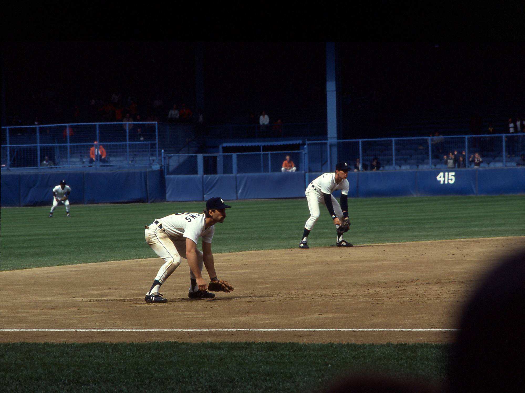 photo by Einar Einarsson Kvaran aka Carptrash 23:45, 23 December 2006 (UTC). Tom Brookens at Tiger Stadium, 1983